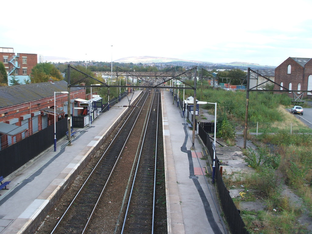 Guide Bridge railway station Opened in 1841 as "Ashton & Hooley Hill" on what became the Manchester, Sheffield & Lincolnshire Railway's line from Manchester to Sheffield via Woodhead, the station developed into a major junction as the Stockport-Stalybridge line crossed here and there was a branch to Oldham. View east towards Flowery Field and Glossop, and until 1981, Sheffield. There used to be a further two platforms to the right.